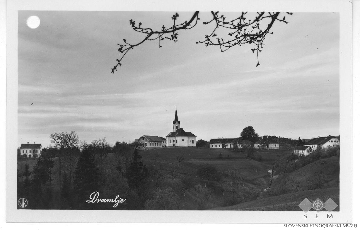 Postcard of Dramlje